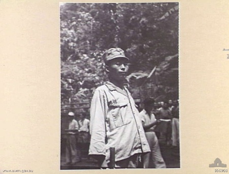 KUMUIA YAMA, RABAUL AREA, NEW BRITAIN. 1945-09-17. A CHINESE SENTRY STANDS GUARD WITH A PIECE OF RED AND WHITE PAINTED WOOD AT THE CHINESE INTERNMENT CAMP. HE IS ONE OF A COMPLETE UNIT BROUGHT FROM SINGAPORE BY THE JAPANESE TO WORK AS LABOURERS IN NEW BRITAIN. THEY WERE LIBERATED BY AUSTRALIAN FORCES WHO ENTERED THE AREA AFTER THE JAPANESE SURRENDER.